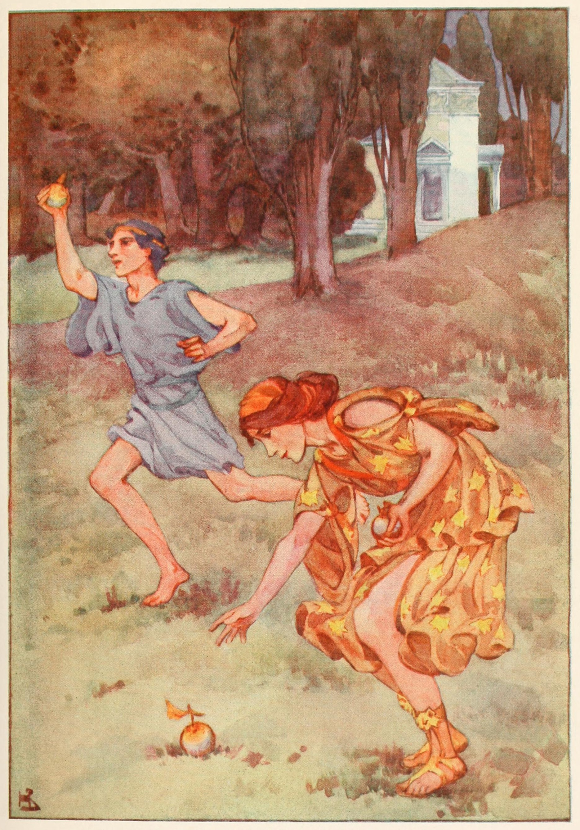 Illustration from a collection of myths.